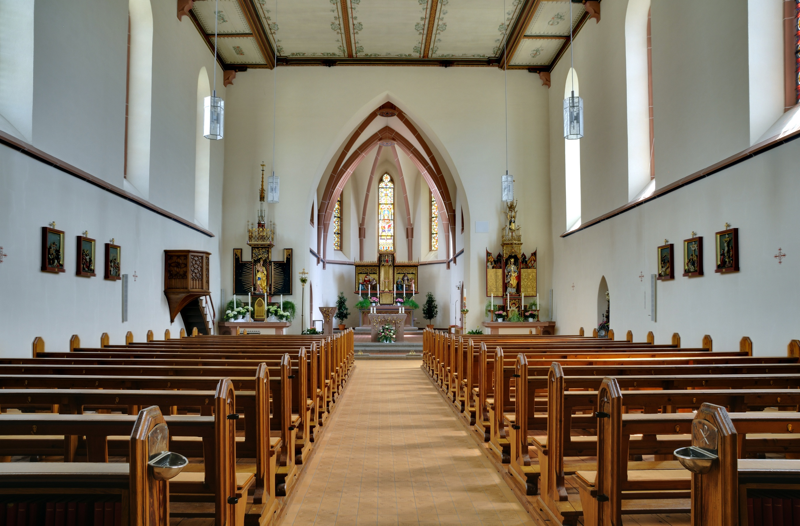 Hausen im Wiesental: catholic church